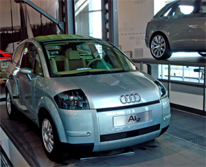 The Audi Al2, the protoype of what would be the Audi A2, photo taken at the Audi Museum in Ingolstadt, Germany, August 2009